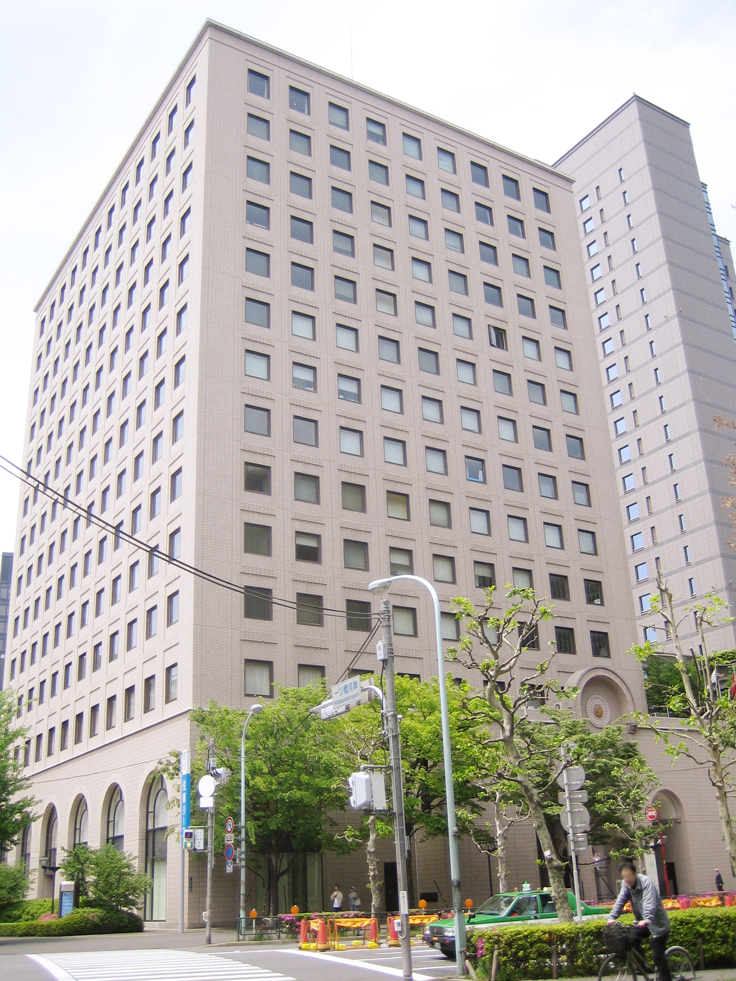 Josui Kaikan (如水会館), Chiyoda, Tokyo, Japan